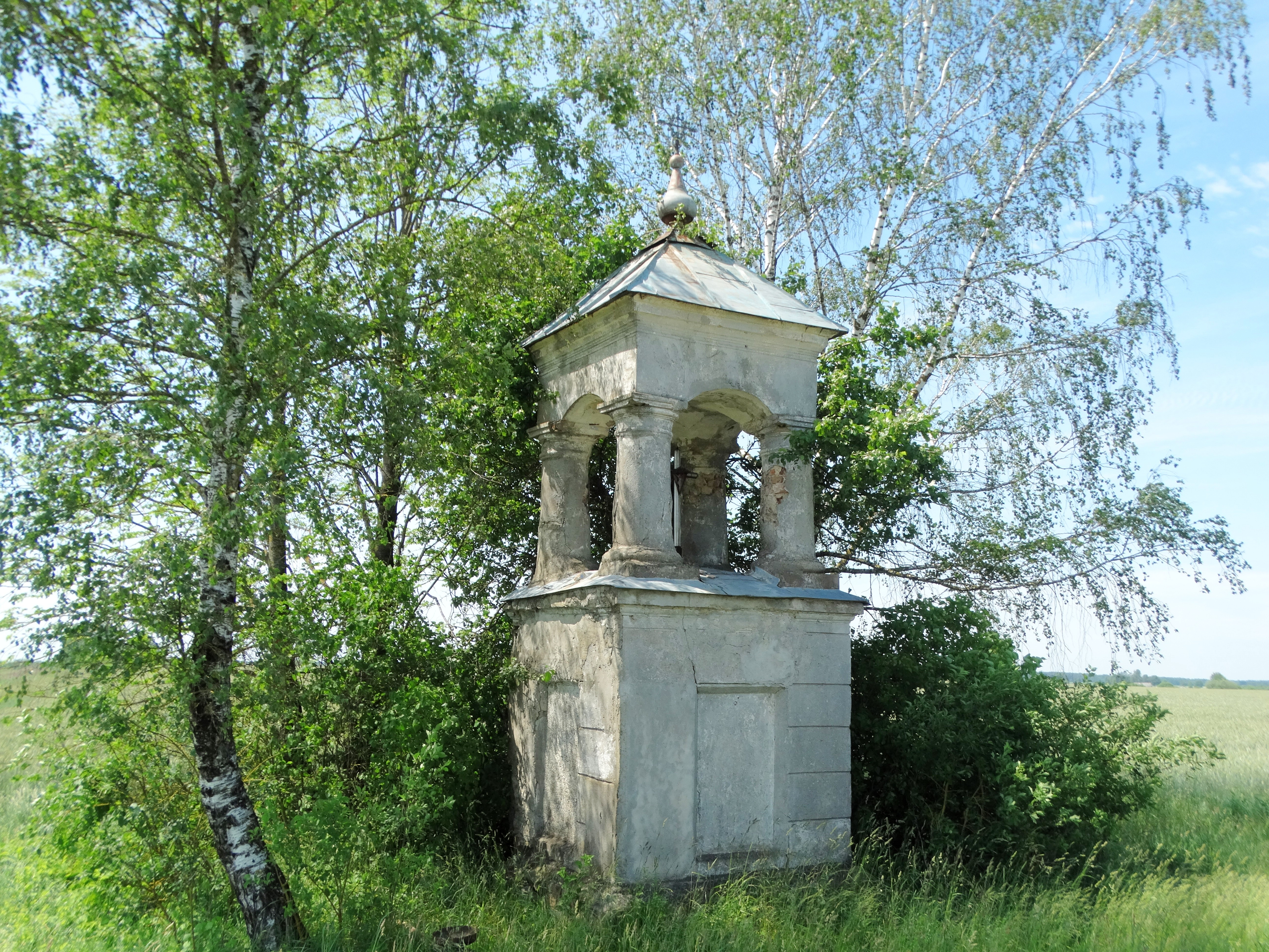 Paobelys, Ukmergė district, Lithuania